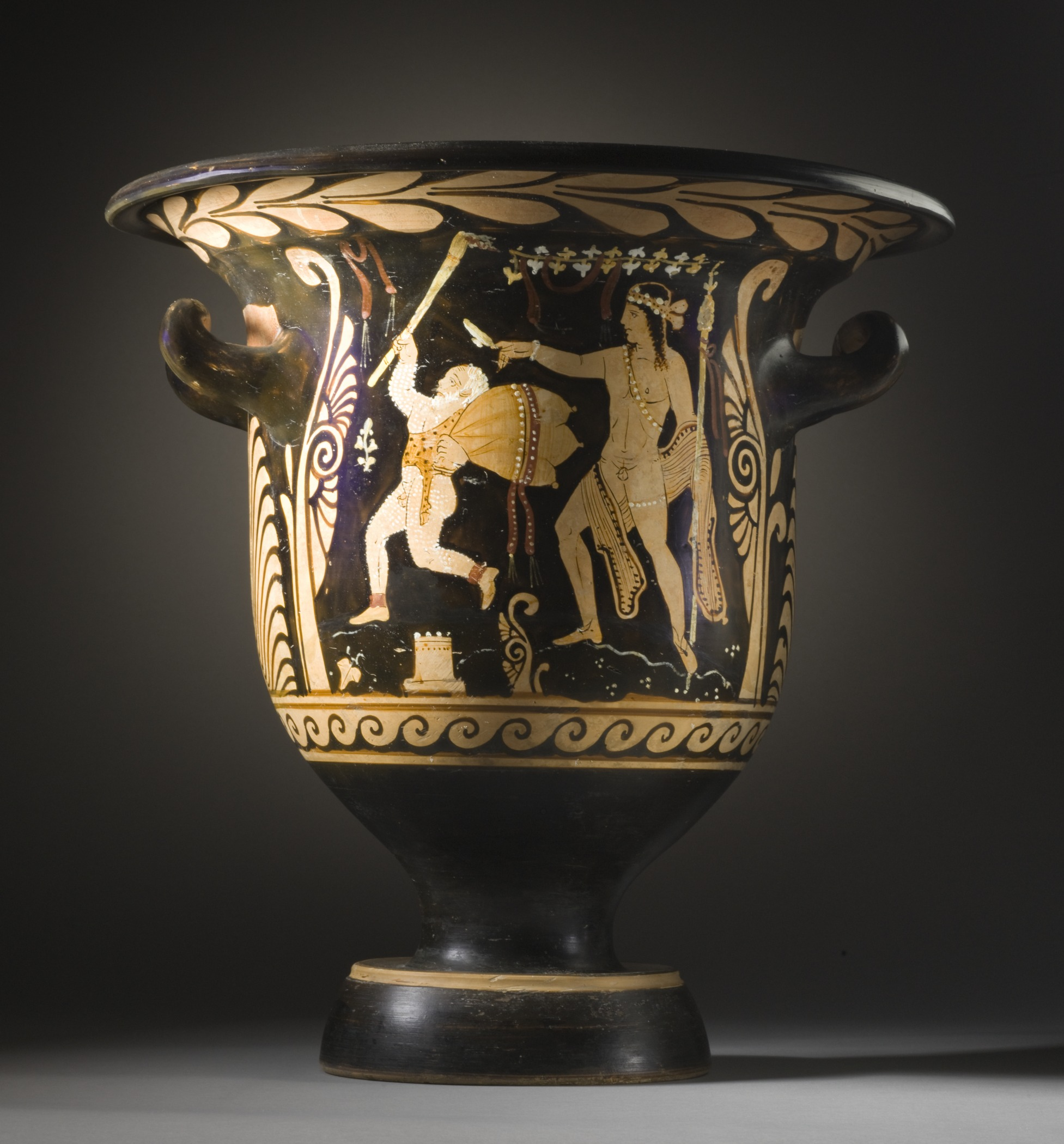 South Italy, Paestum, circa 350-325 B.C. Furnishings; Serviceware Red-figure ceramic with red, yellow, and white paint, and brown wash Willilam Randolph Hearst Collection (50.8.30) Greek, Roman and Etruscan Art Currently on public view: Ahmanson Building, floor 3